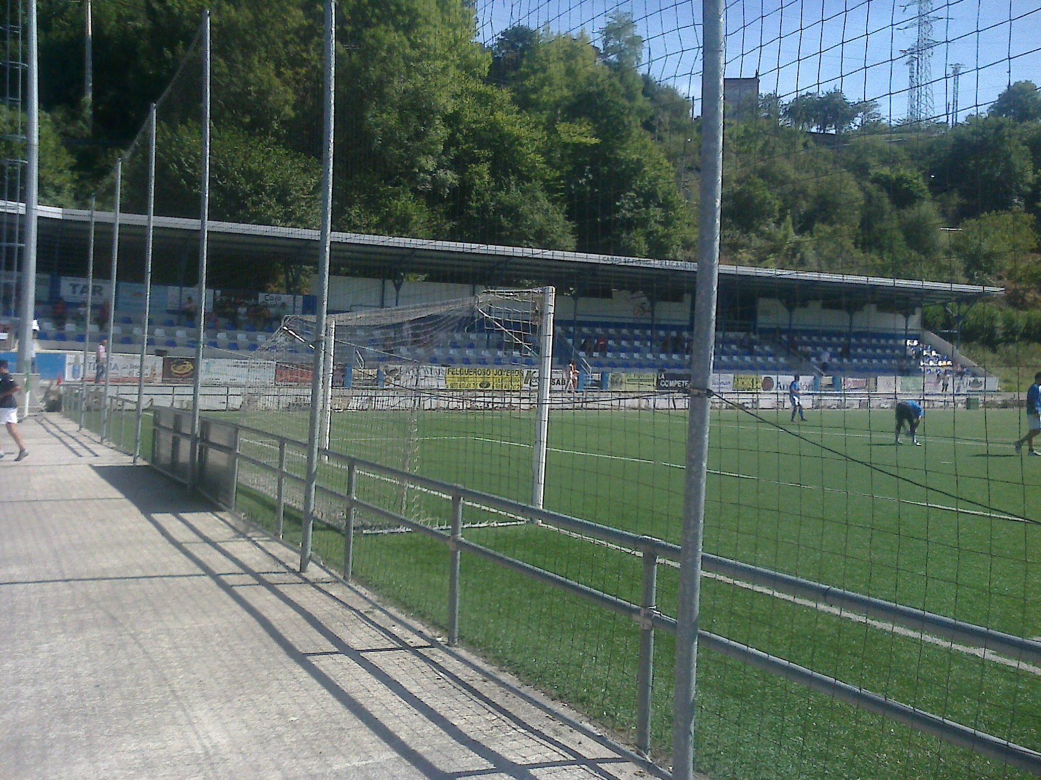 Main Tribune of Estadio El Candín, home of CD Tuilla, football team in Asturias